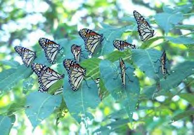 Monarch butterflies